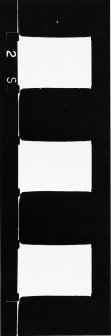 A scan of several frames from The Flicker by Tony Conrad